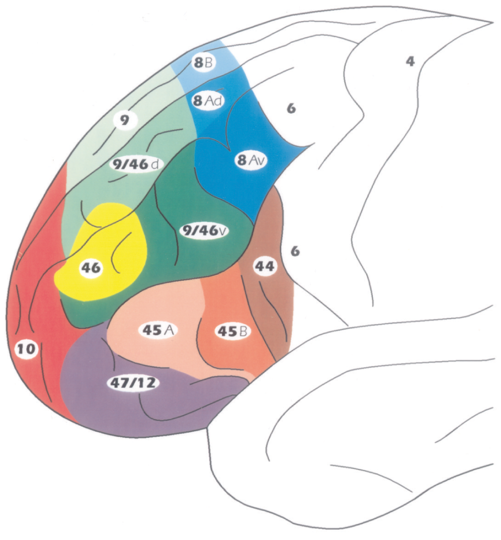 Architectonic map of the human prefrontal cortex. Lateral surface of the human prefrontal cortex.